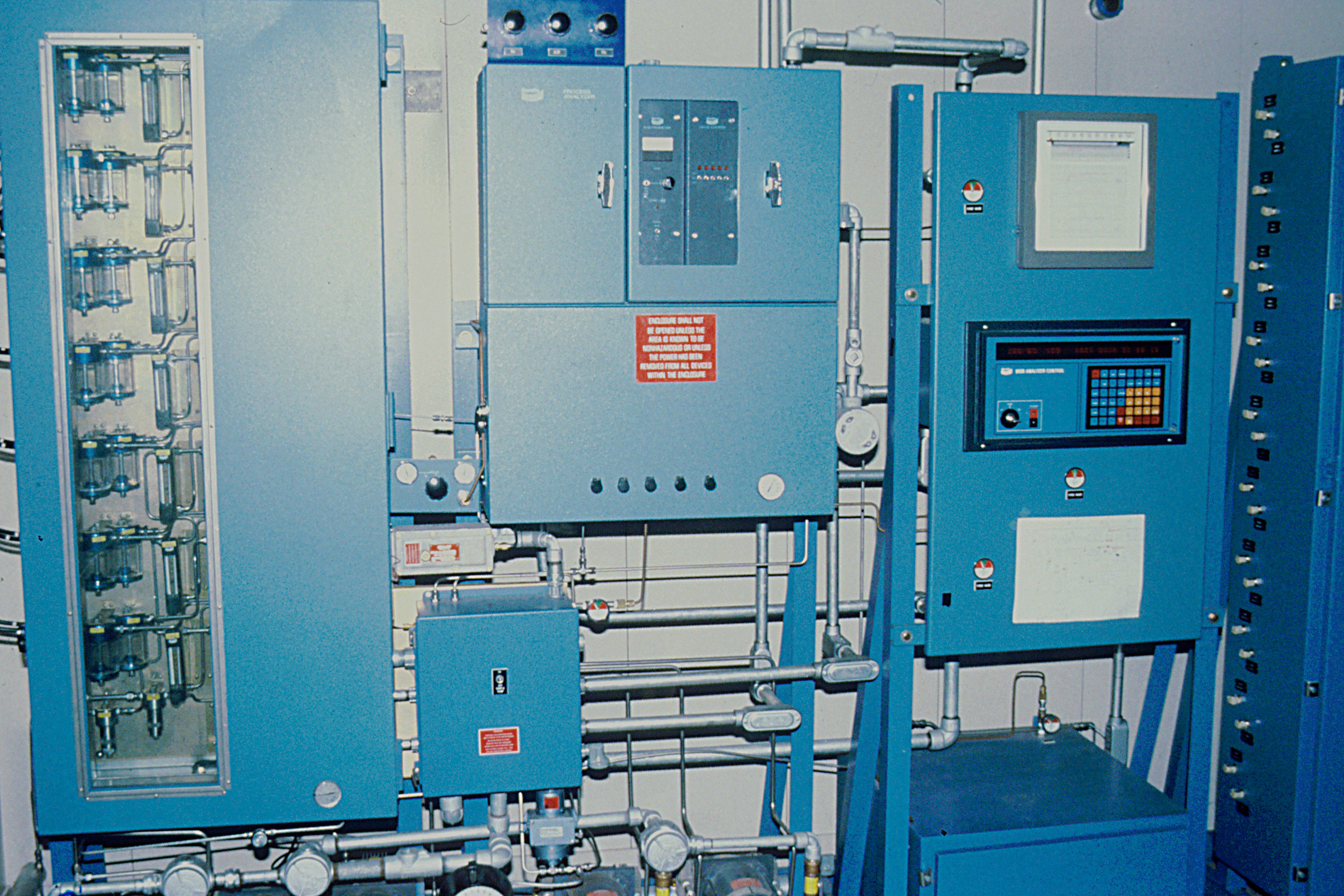 Pictured is a sophisticated gas chromatography system. This instrument records concentrations of acrylonitrile in the air at various points throughout the chemical laboratory.